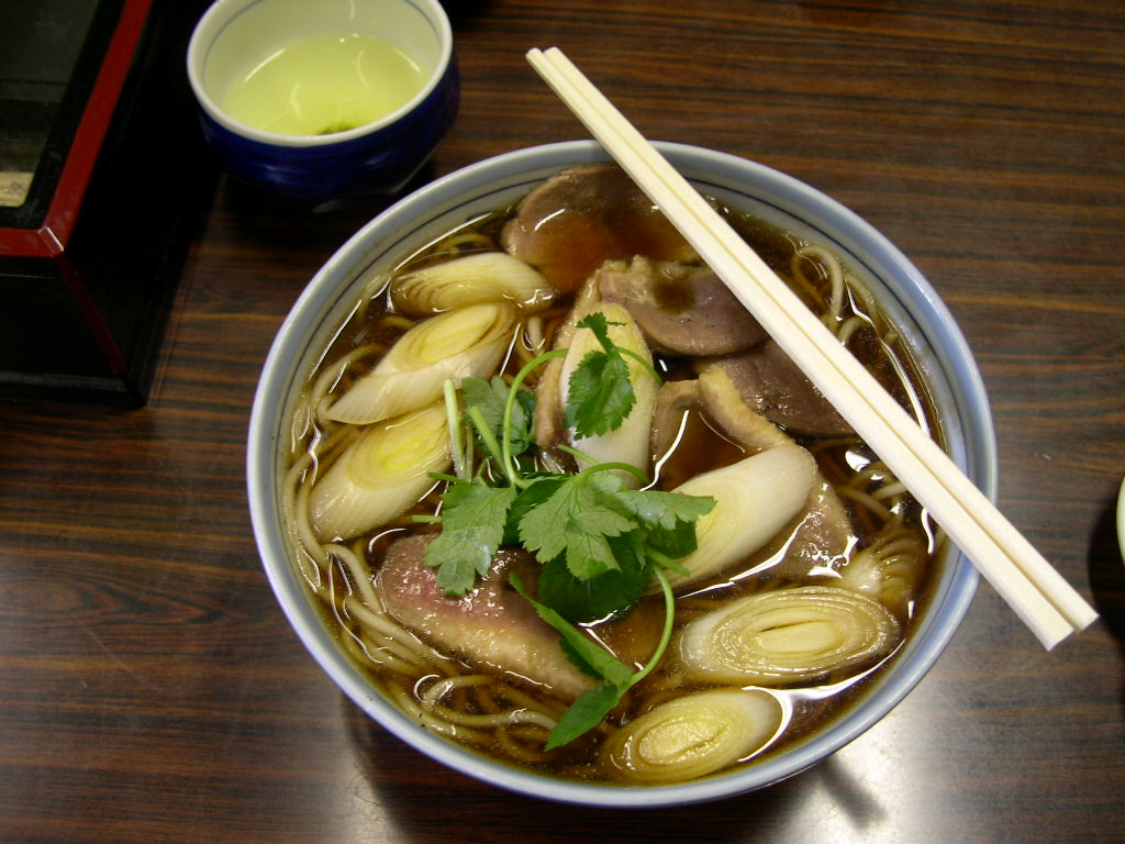 Kamo nanban: Soba with sliced duck breast, negi (scallions) and mitsuba. Taken in soba restaurant in Asakusa, Tokyo, Japan (2005).